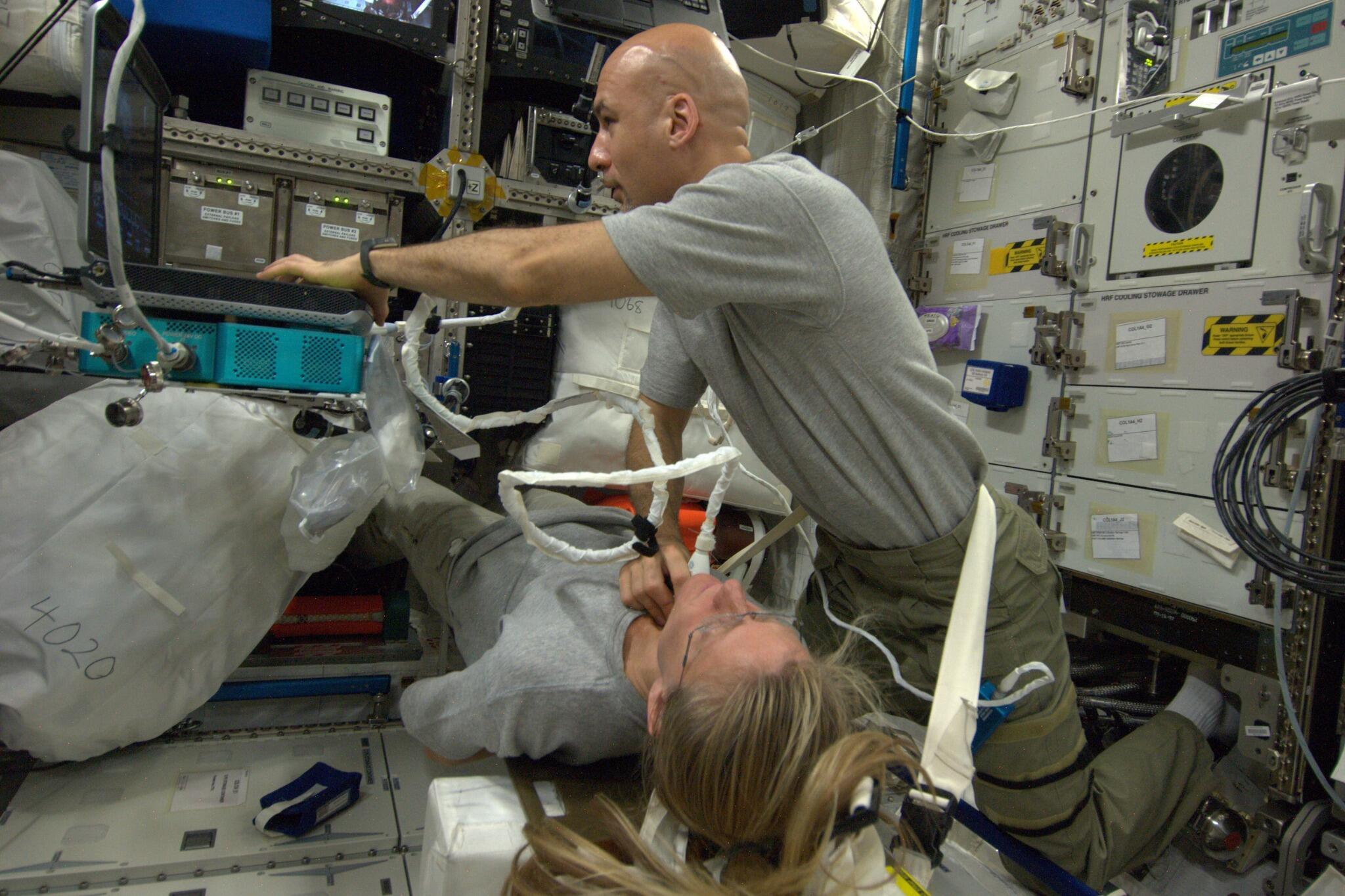 Karen L. Nyberg @AstroKarenN:W/ real-time remote guidance from Houston, @astro_luca conducts ultrasound on my vertebrae to study changes in spine.